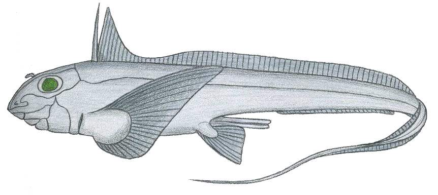 Chimaera cubana reconstruction drawing